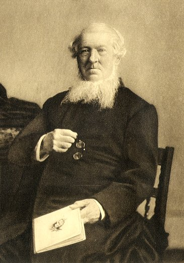 George Rawlison, photogravure from 1899 USA printing of Rawlison's "Ancient History" Original caption: GEORGE RAWLISON, M.A., F.R.G.S. (Canon of Canterbury and Camden Professor of Ancient History at the University of Oxford.) Photogravure from a recent photograph.